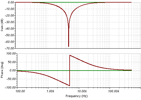 Bode Plot of an first order Passive Band-stop filter